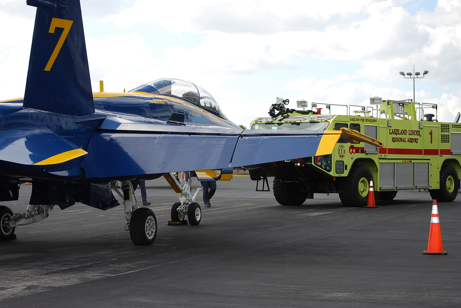 Blue Angels and Arff 1